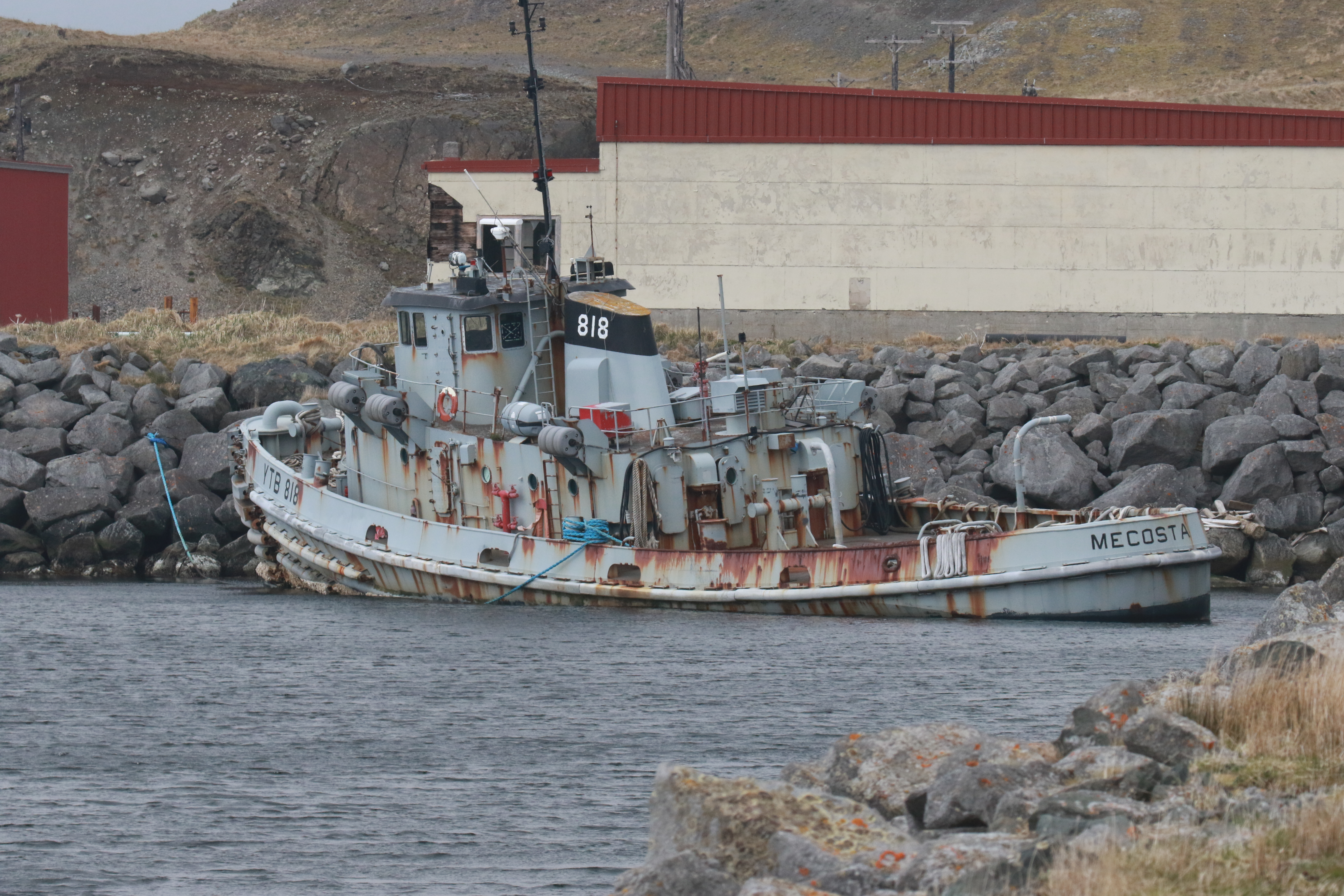 This is the former US Navy Natick-class harbor tug Mecosta, YTB 818, in Adak, Alaska in May 2016